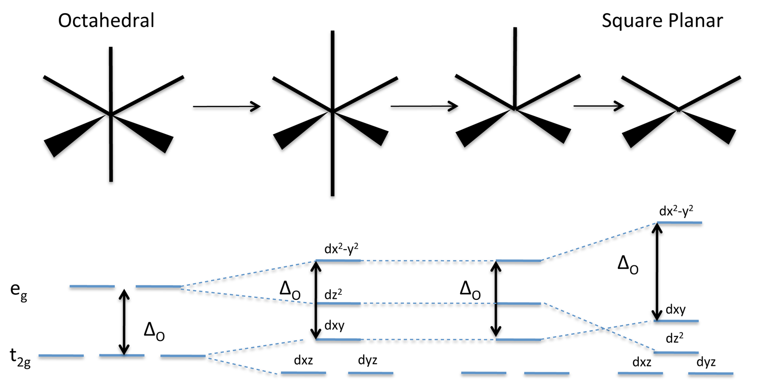 crystal field energy diagram showing the transition from octahedral to square planar geometry